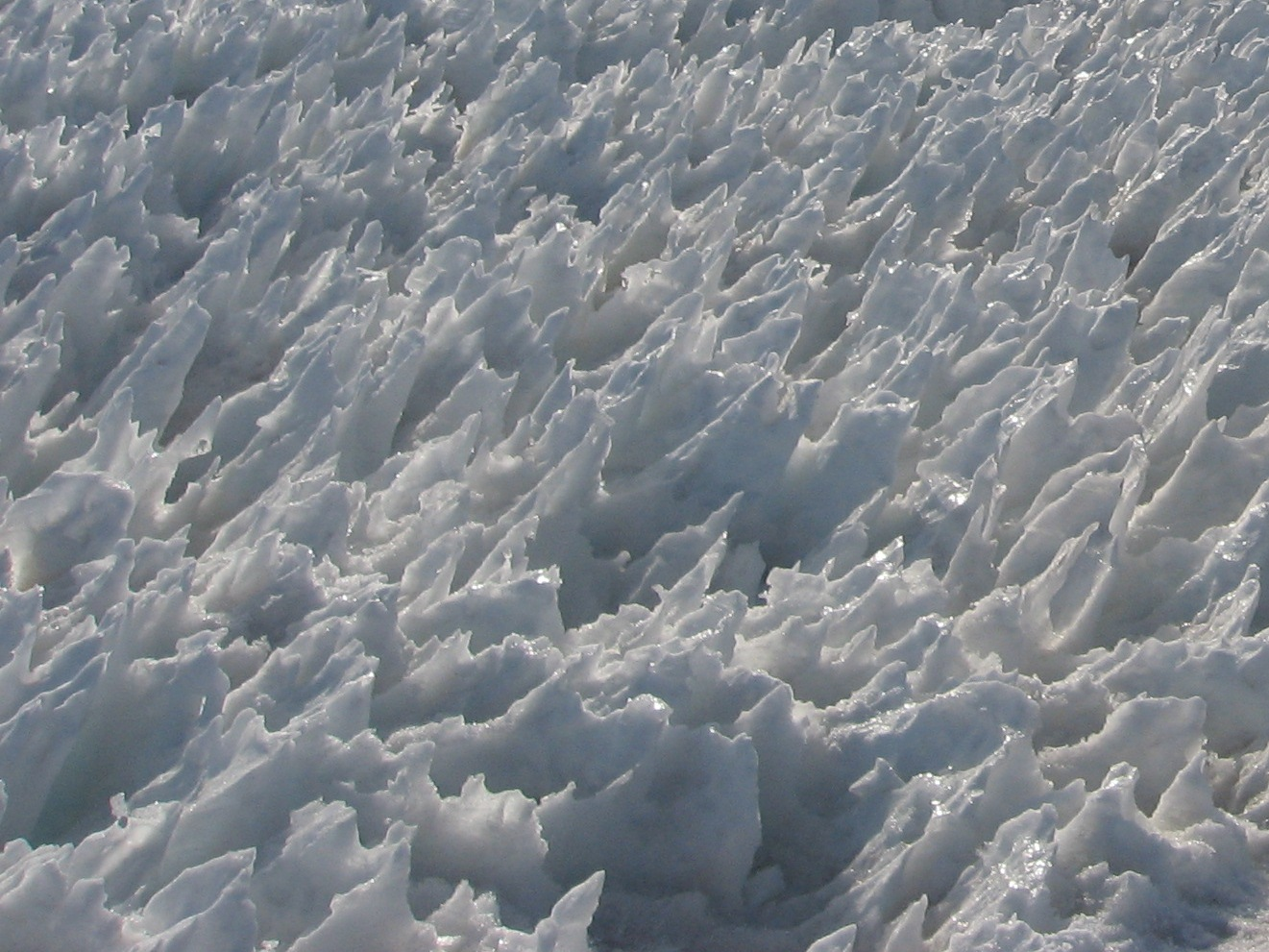 Penitentes in the summit crater of Mount Rainier. Formations approximately 50cm high, tilted southwards towards the sun.